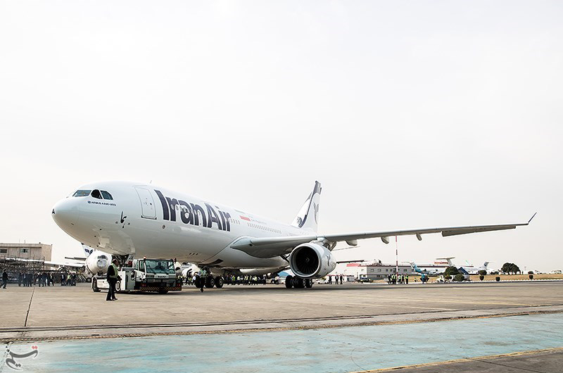 Arrival of Iran Air Airbus A330-200 (EP-IJA) at Mehrabad International Airport